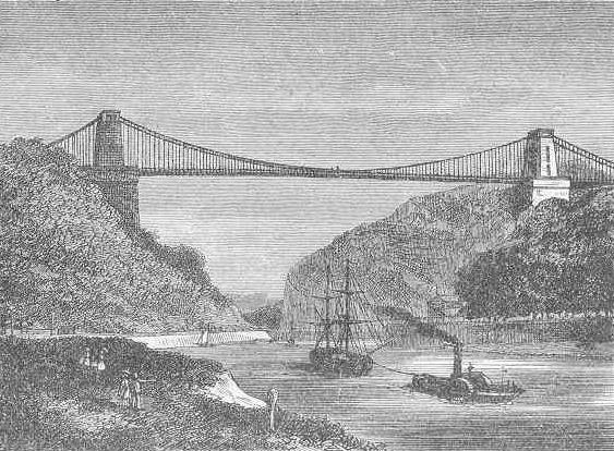 The Clifton Suspension Bridge in Bristol.